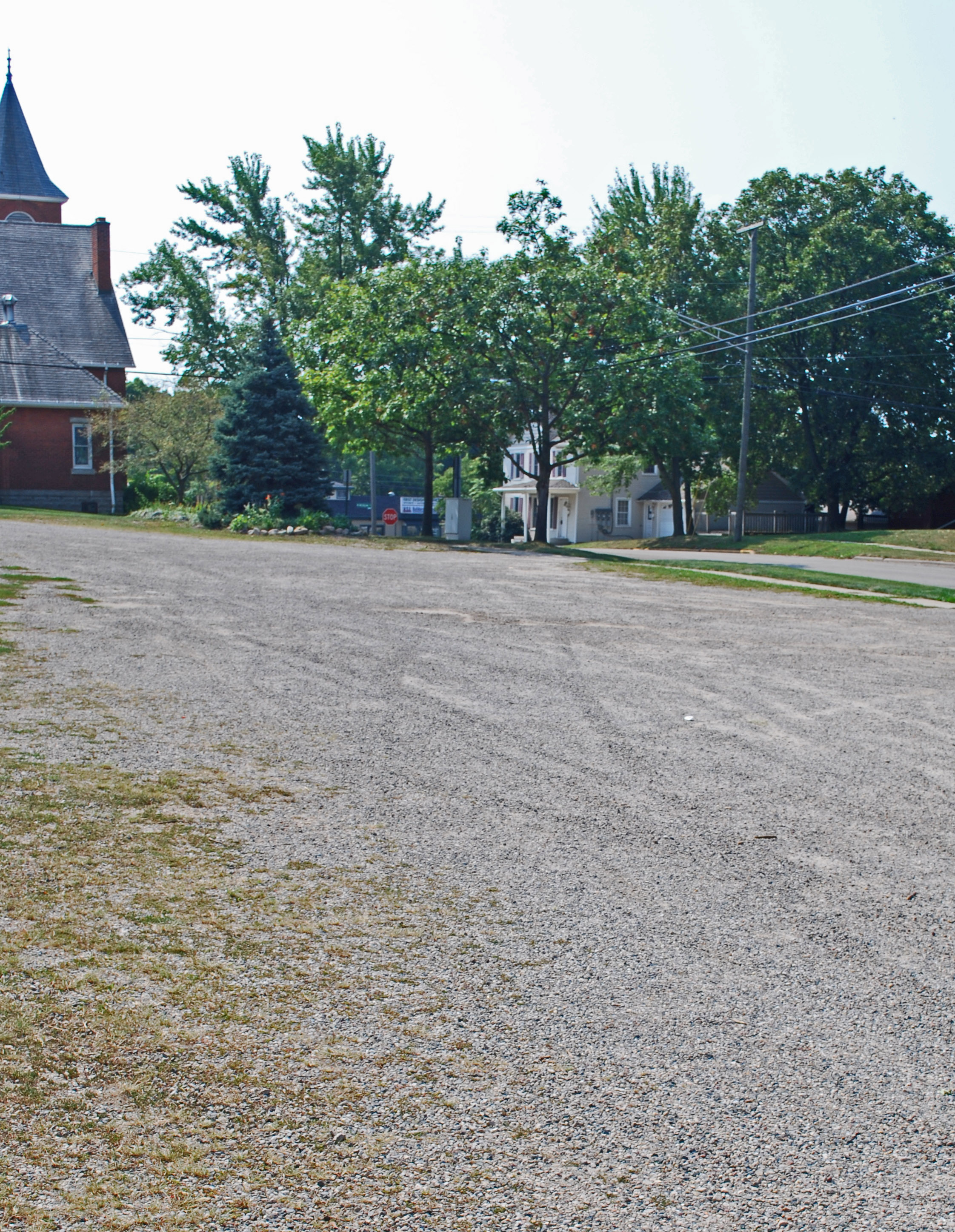 Former location of the Miller-Walker House, Saline MI